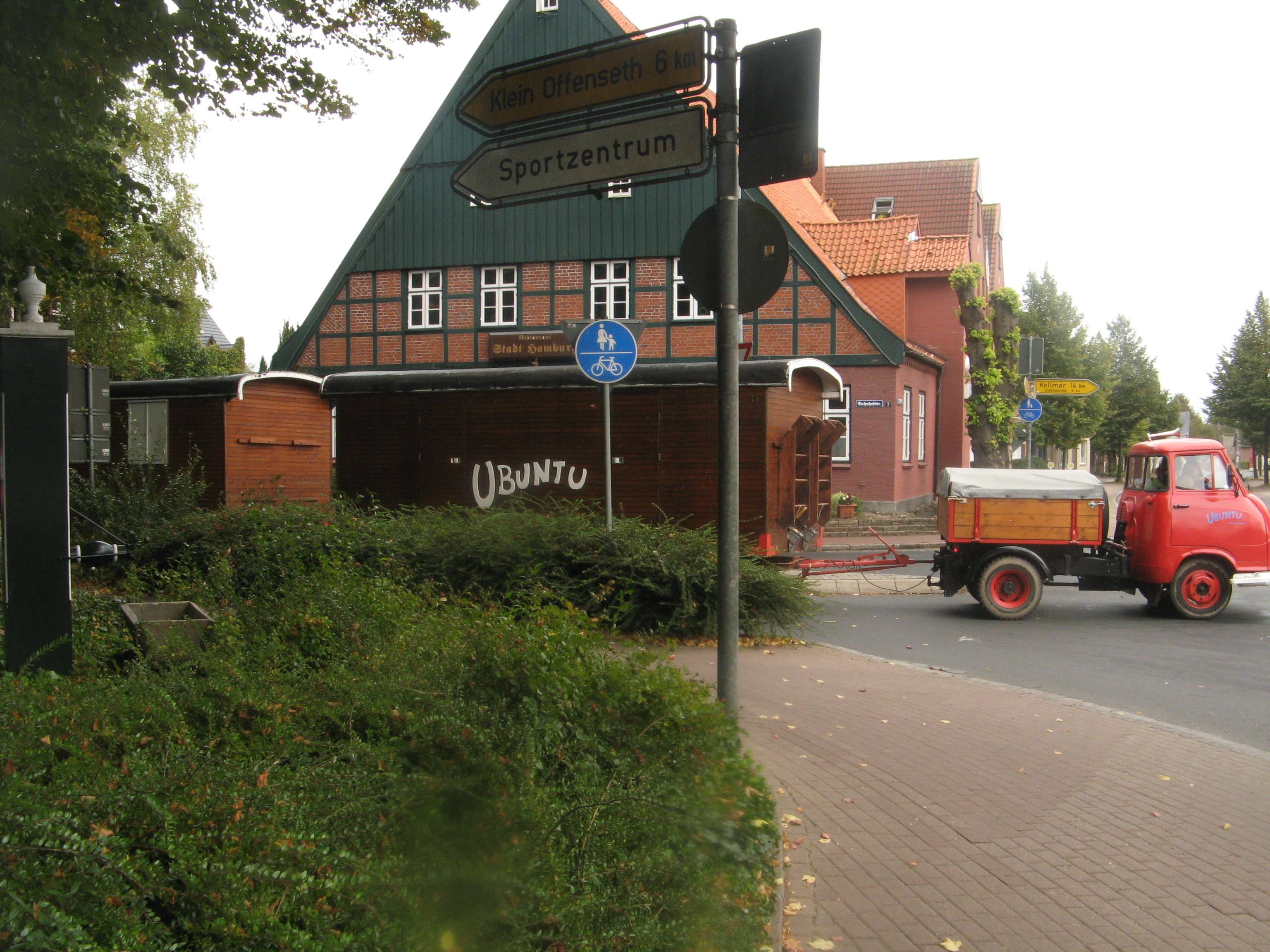 Horst, Holstein, Germany